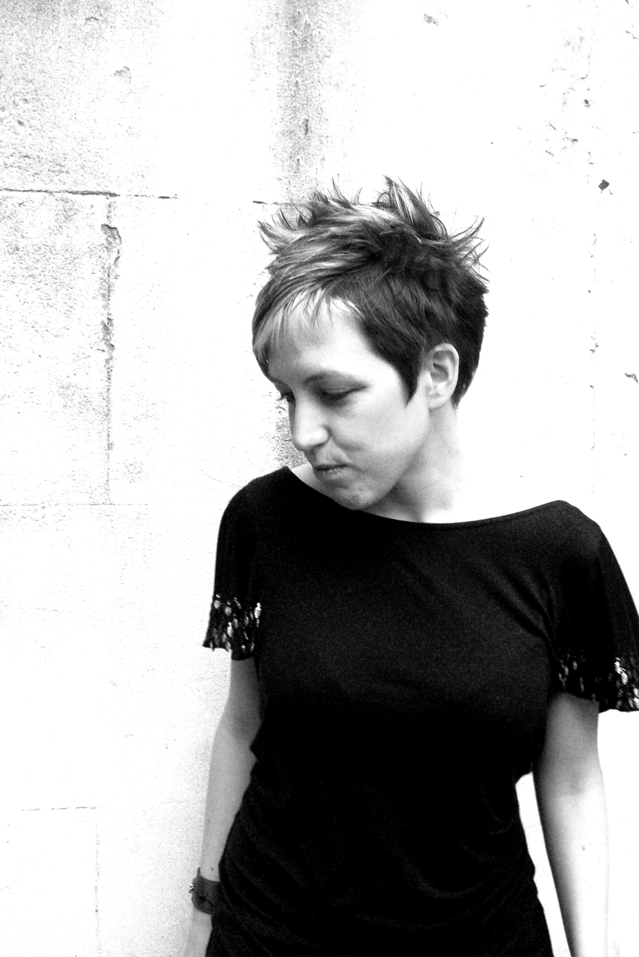 English composer, performer, writer and educator Kerry Andrew at Trinity College of Music in 2009